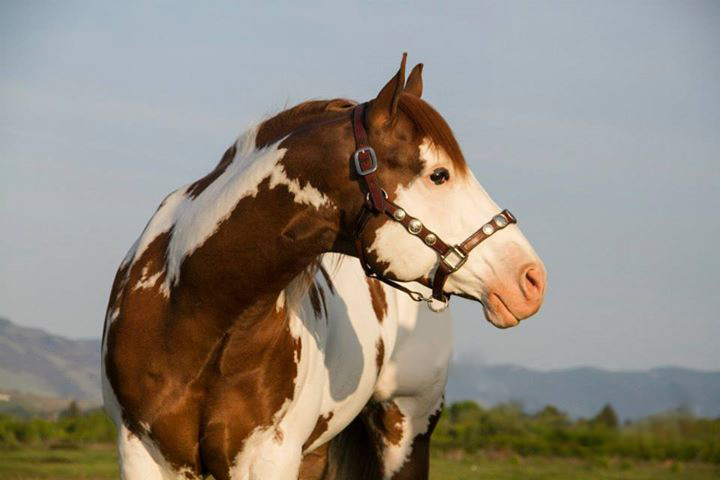 Sucha Awesome Deal. 2009 liver chestnut APHA/AQHA Stallion owned by Blake Jamison